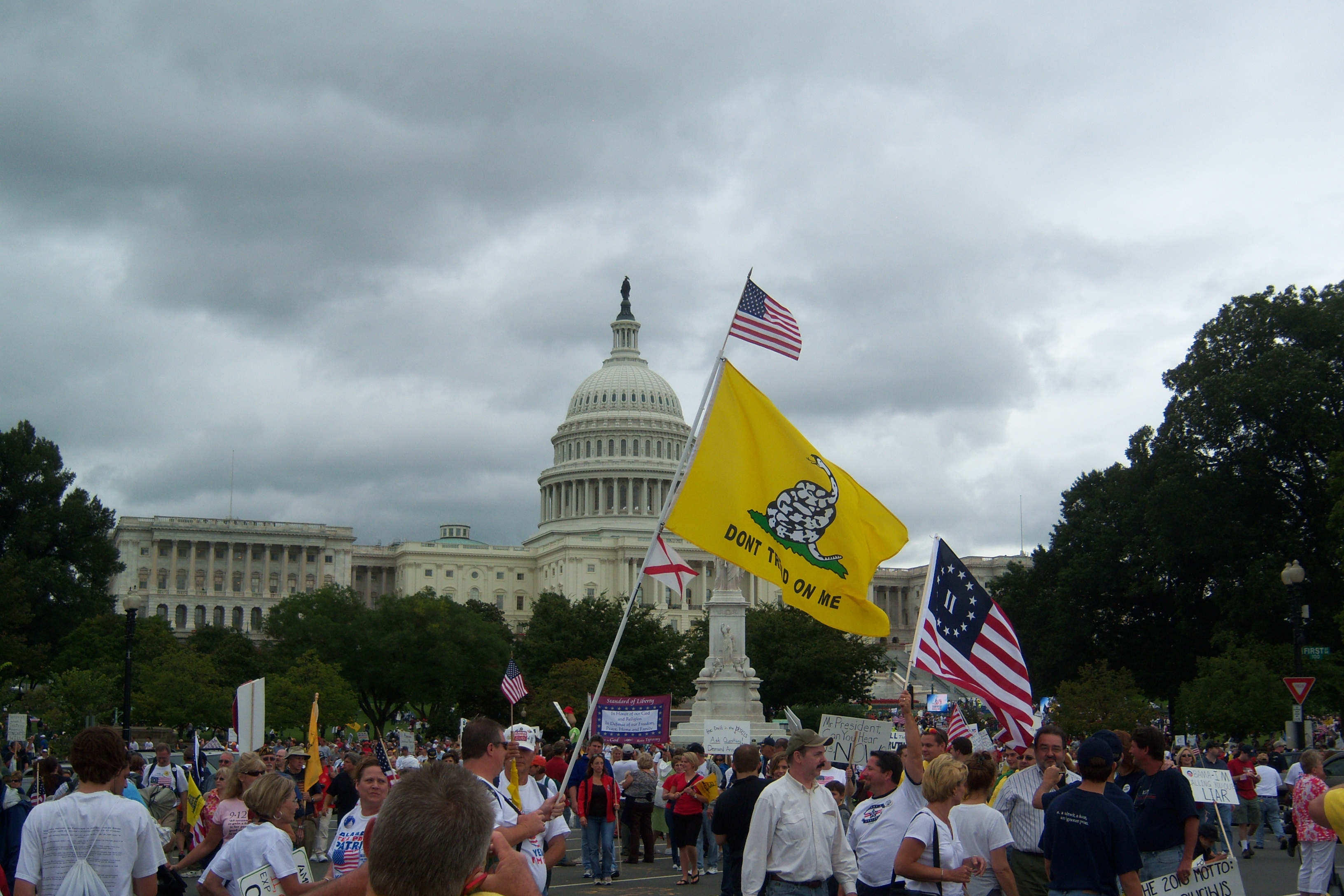 Washington, D.C. - Photo of Tea Party Protests at the Capitol Building September 12, 2009.